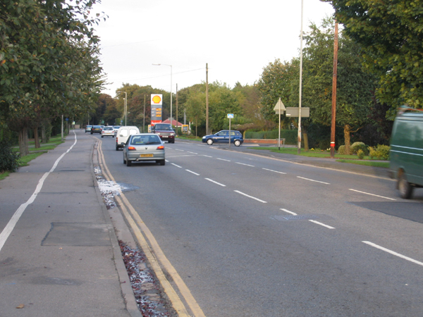 Sleaford Road, Boston, Lincs. View NE from Rosebery Avenue junction.